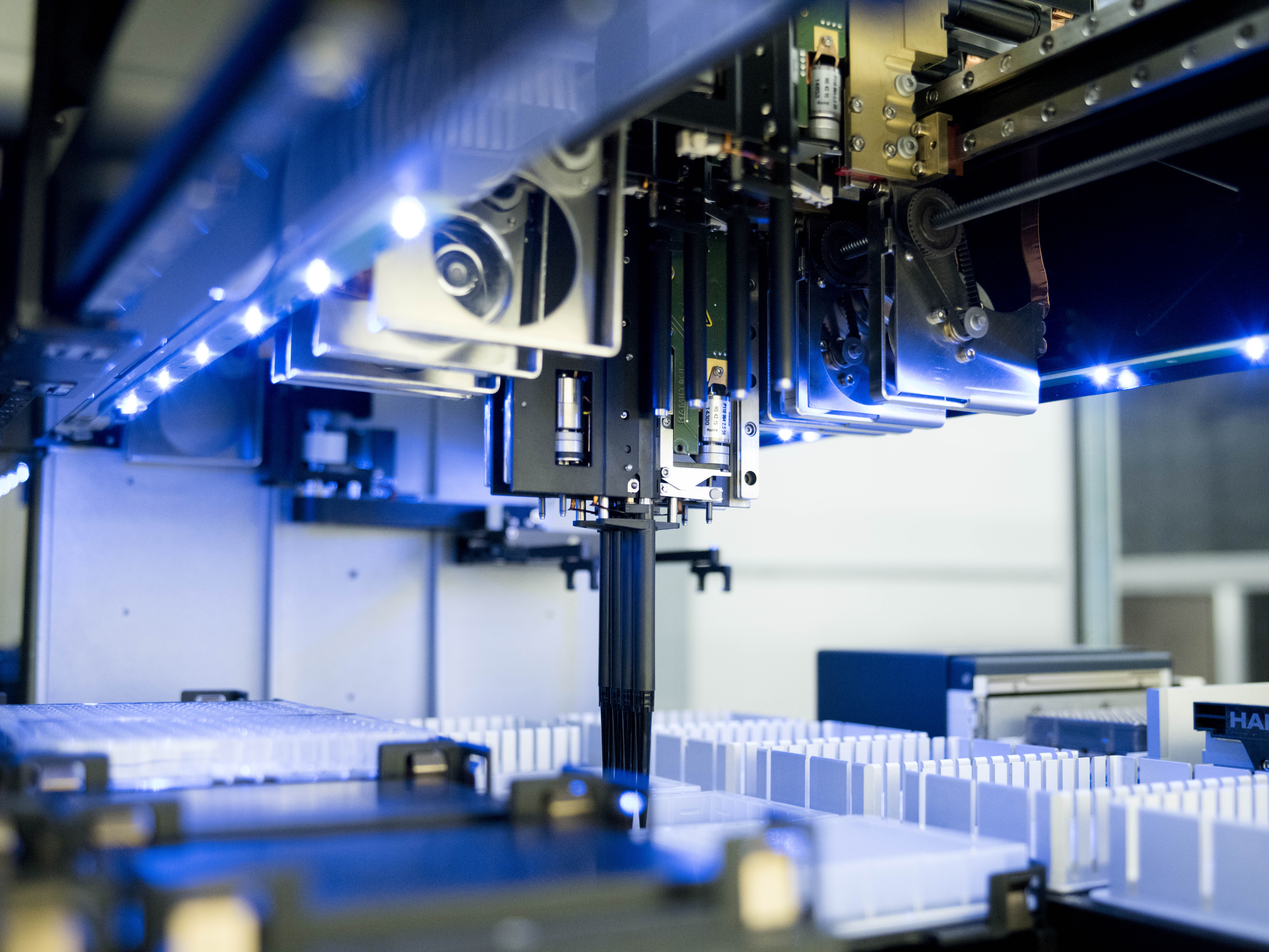 Robotics performing molecular and functional assays at JUST headquarters